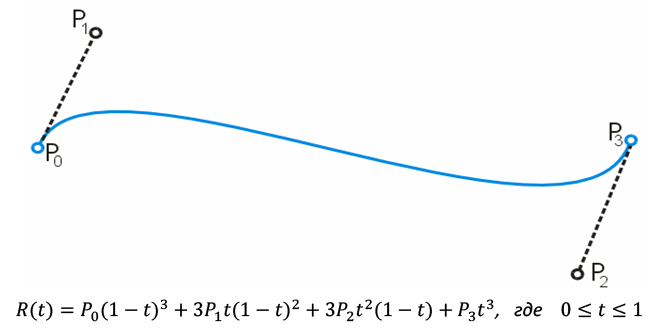 Bezier curve